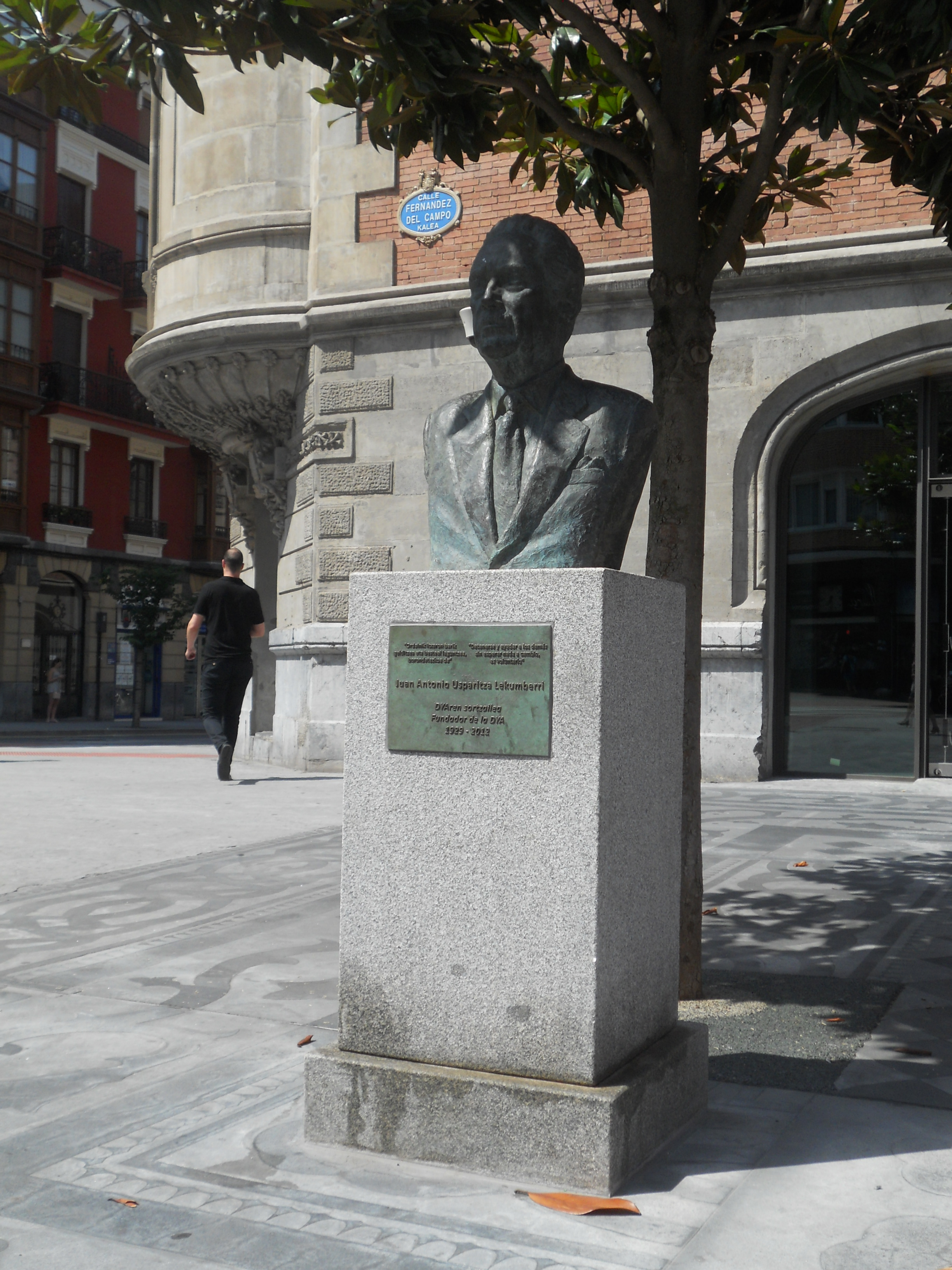 DYA founder Juan Antonio Usparitza's statue in Bilbao.